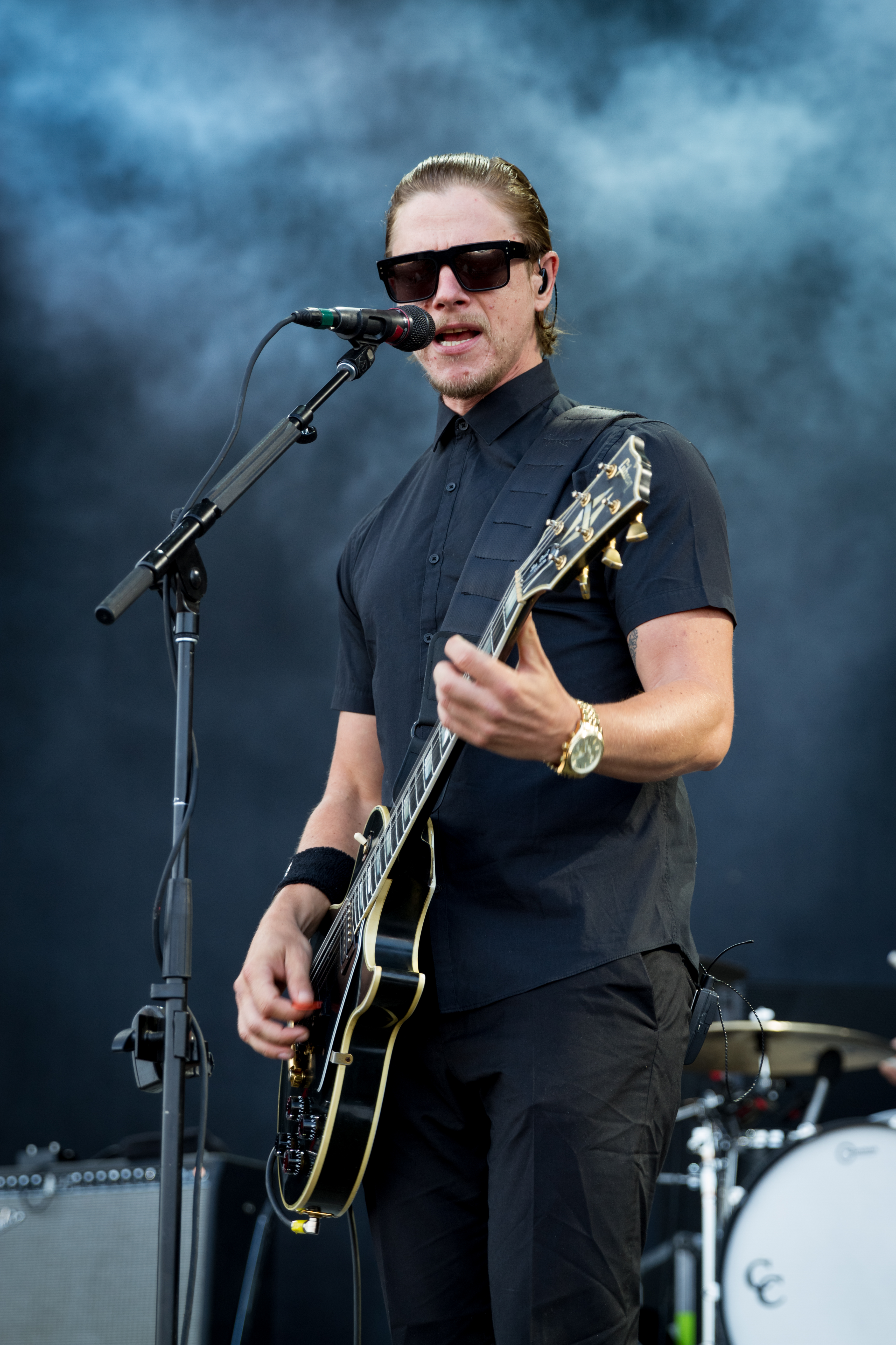 Interpol (Band) - Rock am Ring 2015